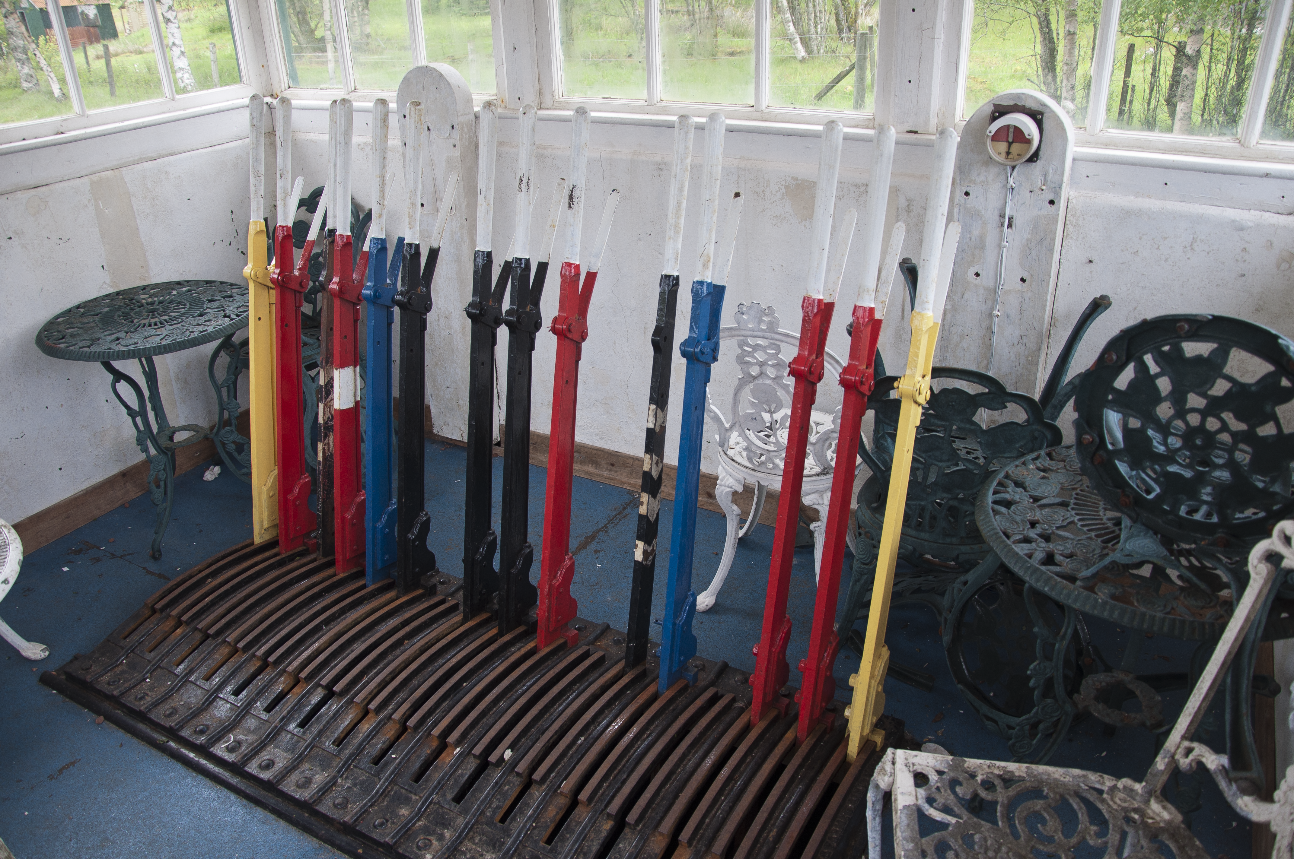 Signal box at Rannoch station, West Highland Line, Scotland